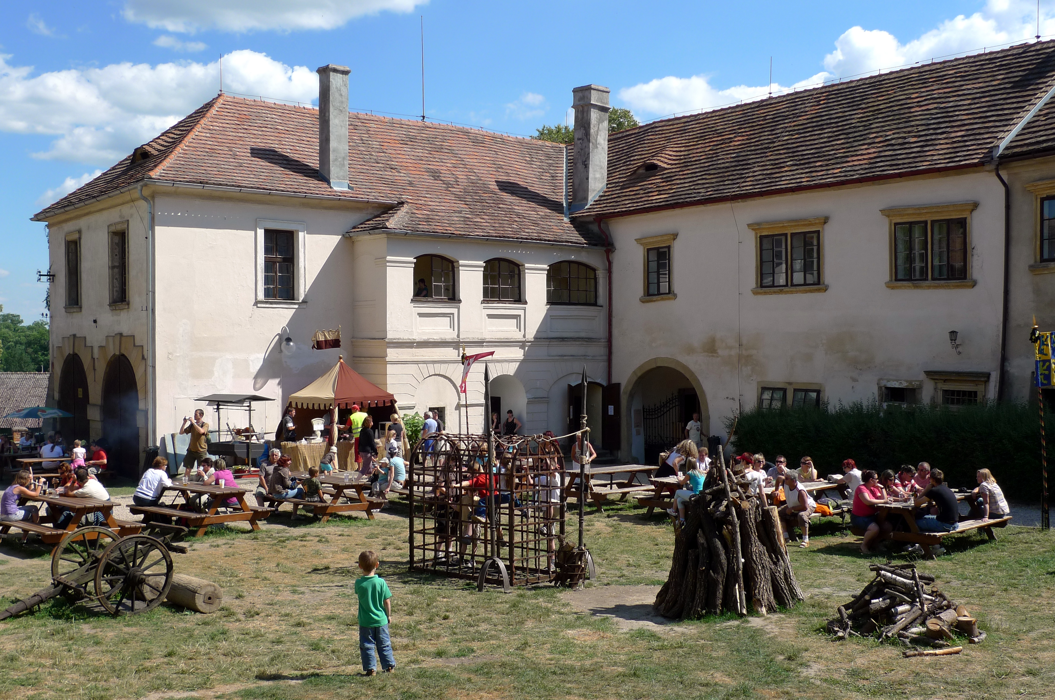 Castle of Stré Hrady, Czech Republic. Česky: Zámek ve Starých Hradech.